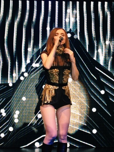 With the performance of Gülşen stage, İzmir Arena (2013).